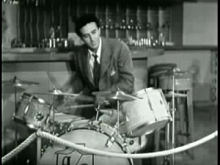 Movie screenshot of jazz drummer Nick Fatool in a drum solo from Artie Shaw's "Concerto for Clarinet" from Second Chorus